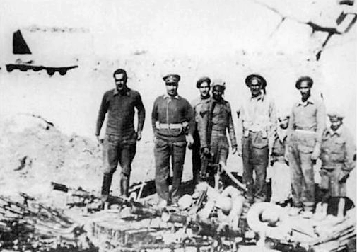 Pictured are Gamal Abdel Nasser (first from left), before becoming President of Egypt, with fellow Egyptian soldiers at Faluja, Palestine during the 1948 Arab-Israeli War. They are displaying weapons captured from the Israeli Army.